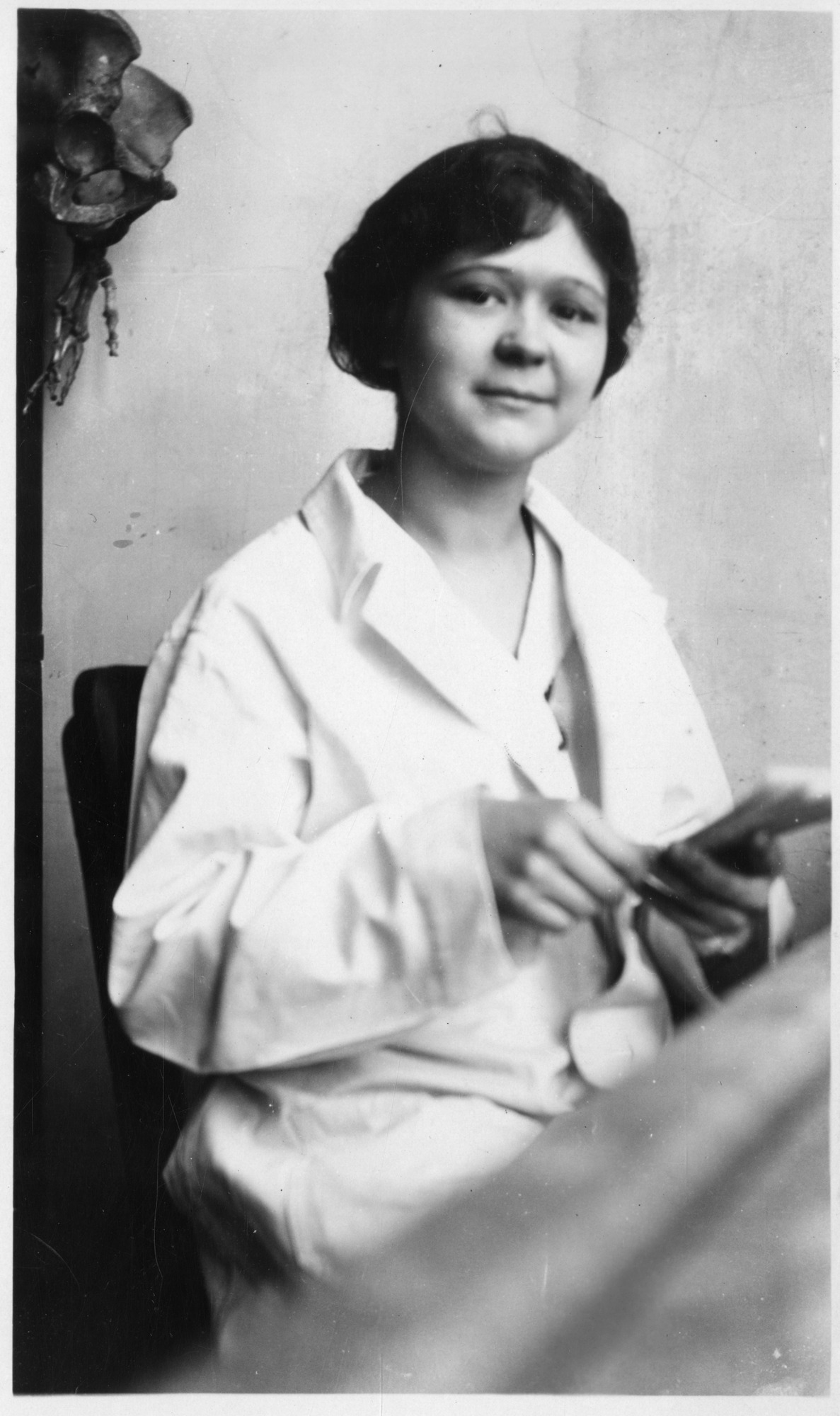 Subject: Trotter, Mildred 1899-1991 Mt. Holyoke College Washington University (Saint Louis, Mo.) Type: Black-and-white photographs Topic: Anatomy Anthropology Women scientists Local number: SIA Acc. 90-105 [SIA2010-0139] Summary: Anatomist and anthropologist Mildred Trotter (1899-1991), graduated from Mt. Holyoke College in 1920 and received Ph.D. from Washington University in 1924; except for serving as a U.S. Army forensic anthropologist following World War II, she spent her entire career at Washington University Cite as: Acc. 90-105 - Science Service, Records, 1920s-1970s, Smithsonian Institution Archives Persistent URL:Link to data base record Repository:Smithsonian Institution Archives View more collections from the Smithsonian Institution.